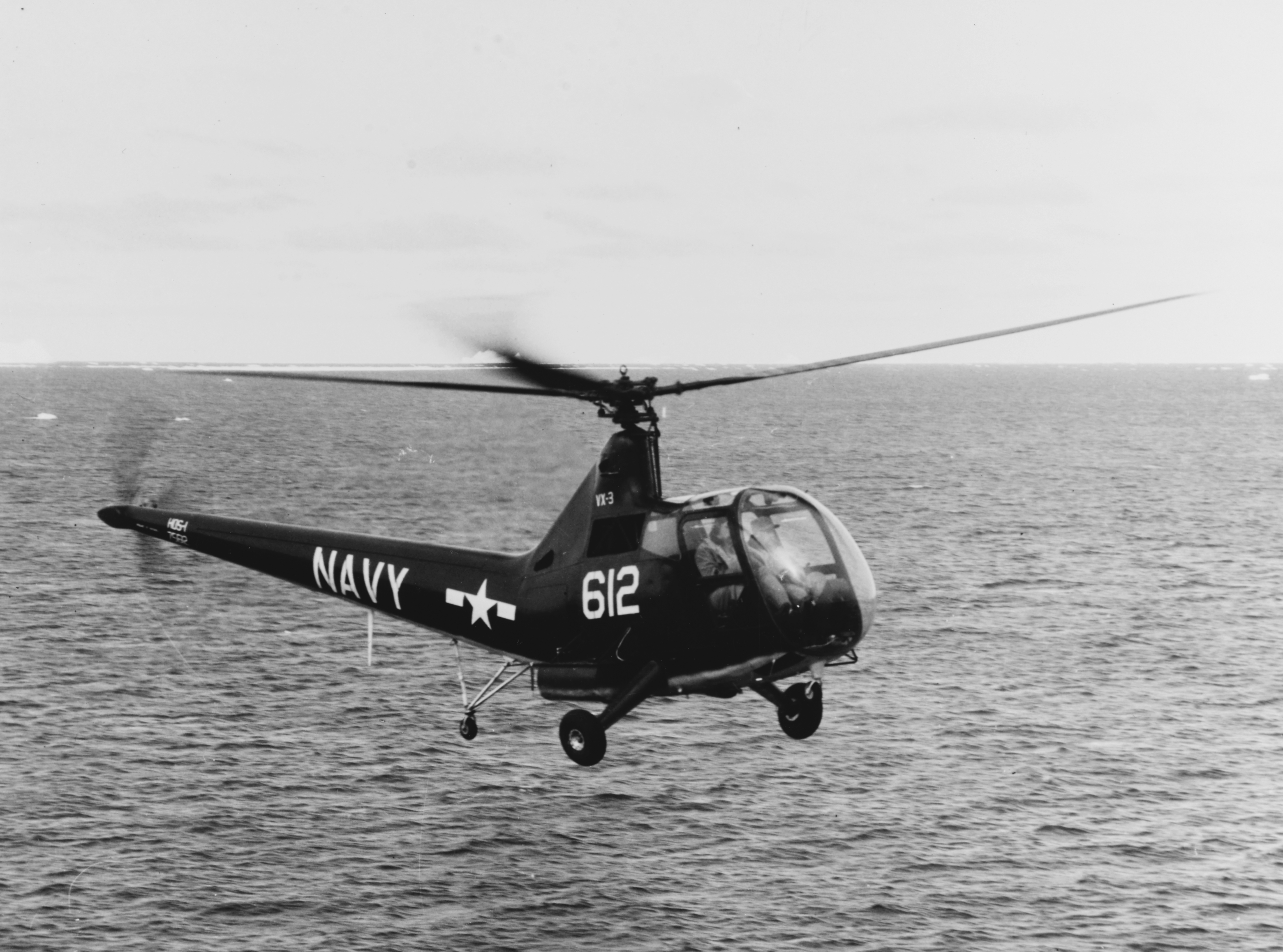 A U.S. Navy Sikorsky HOS-1 (BuNo 75612) from Air Development Squadron 3 (VX-3) coming in for a landing, 30 January 1947.